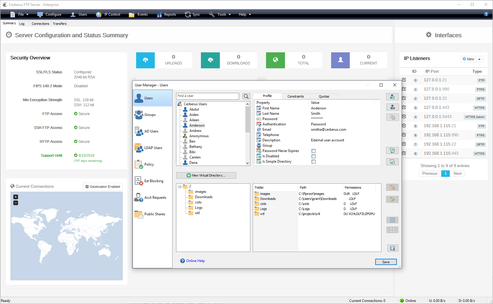 A screenshot of the Cerberus FTP Server 9.0 desktop administration Windows application.